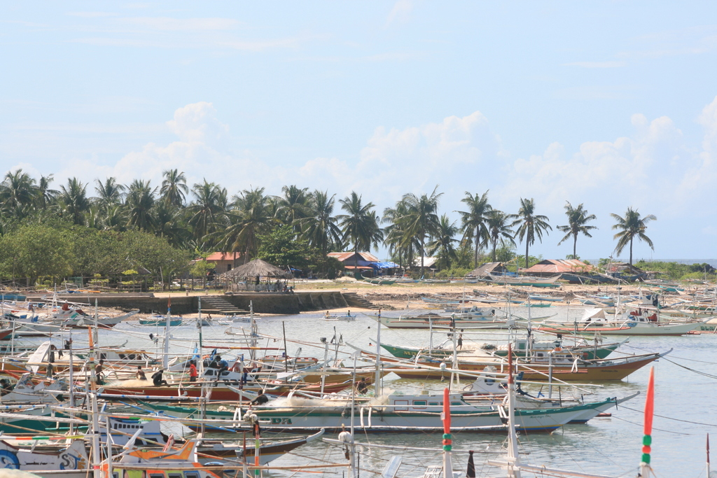 Fishing boats at Madridejos. A lot of small boats.